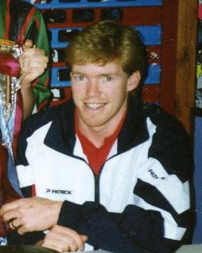 This file has been extracted from another file: Ray Houghton, Steve Staunton Coca-Cola Cup 1995.jpg